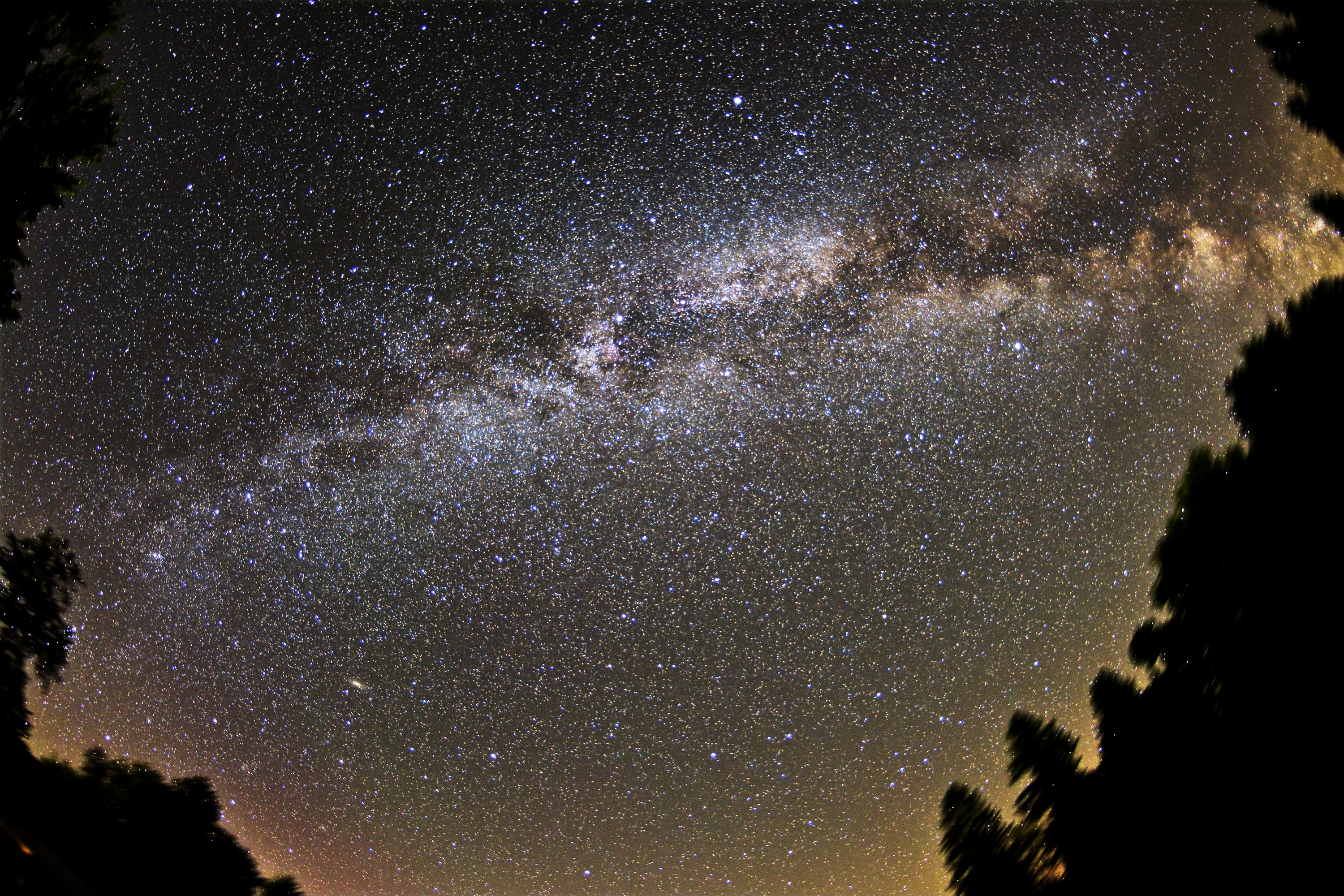 Aufnahme der Milchstraße von der Sternwarte Sankt Andreasberg